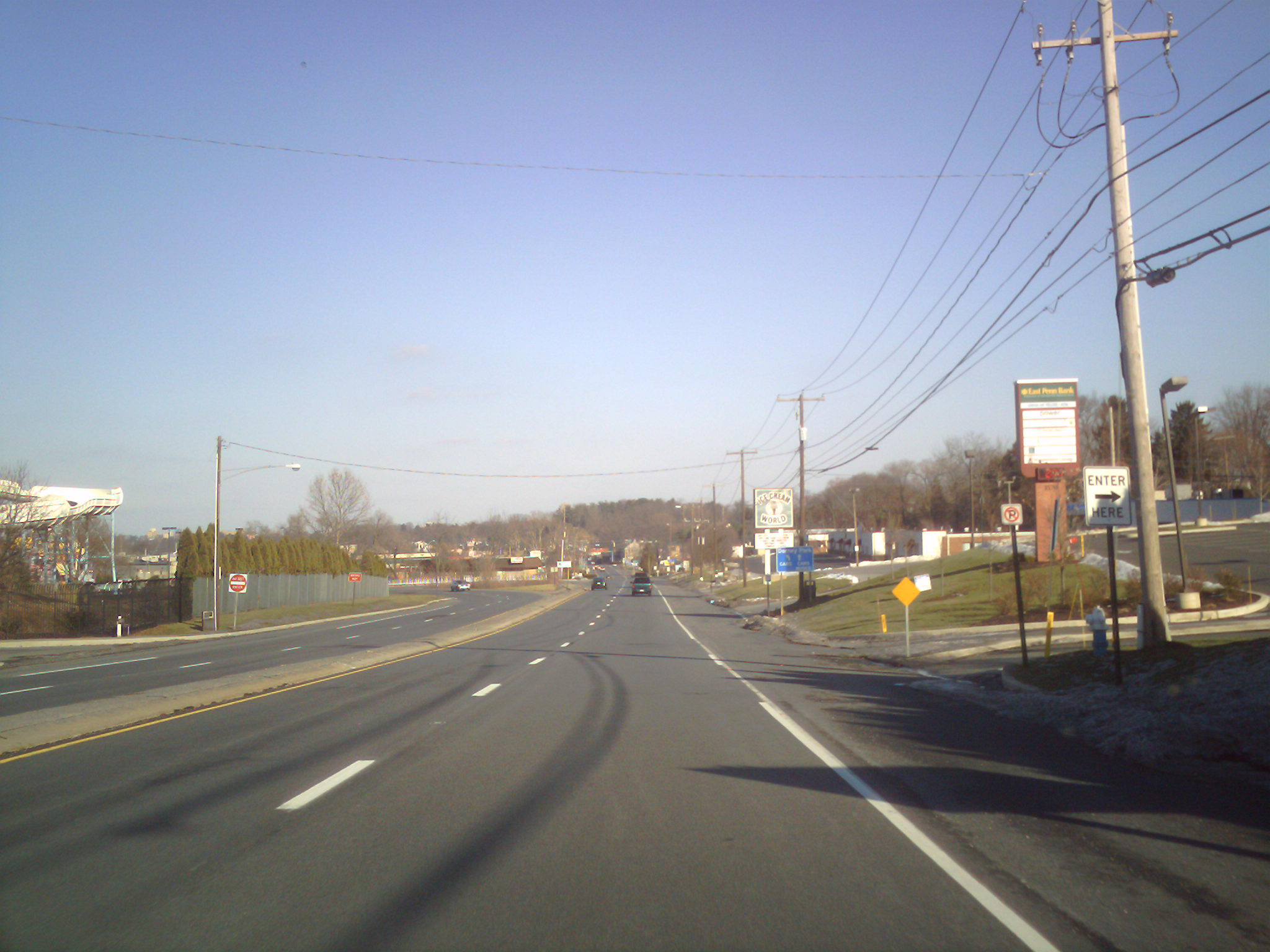 Route 222 in Allentown, Pennsylvania heading northbound past Dorney Park.